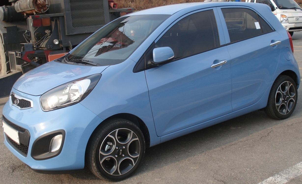 Kia All New Morning